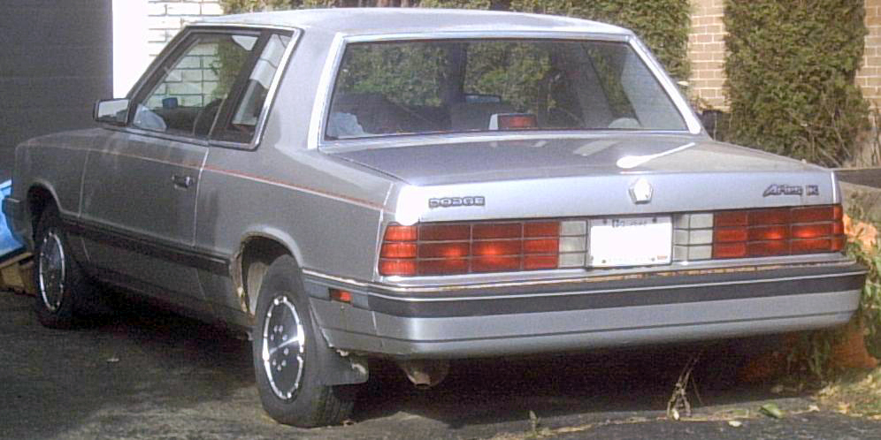 1986-1989 Dodge Aries coupe photographed in Montreal, Quebec, Canada.